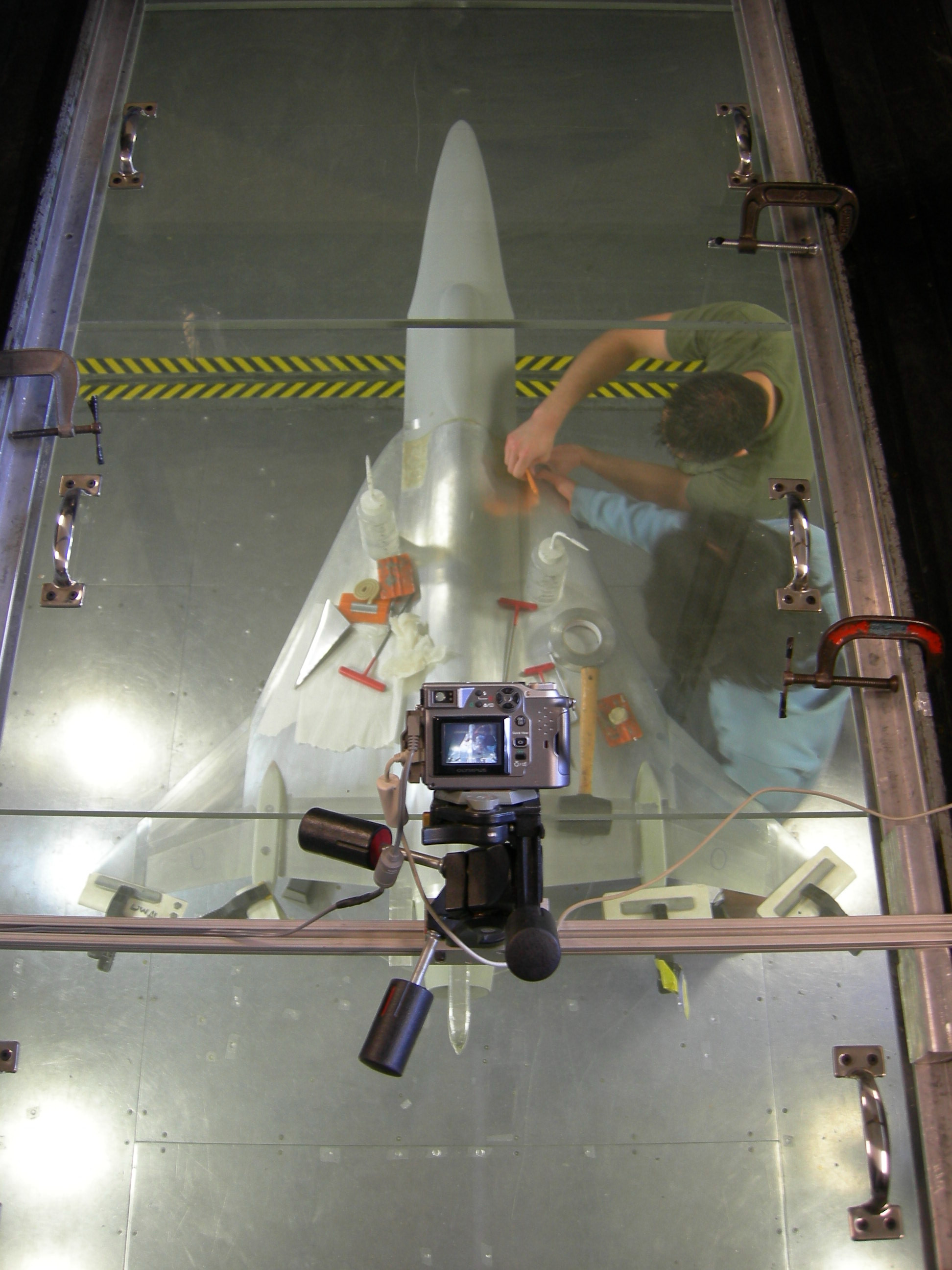 F.K. Kirsten Wind Tunnel, University of Washington Aeronautical Laboratory (UWAL), University of Washington, Seattle, Washington. Seen from above.